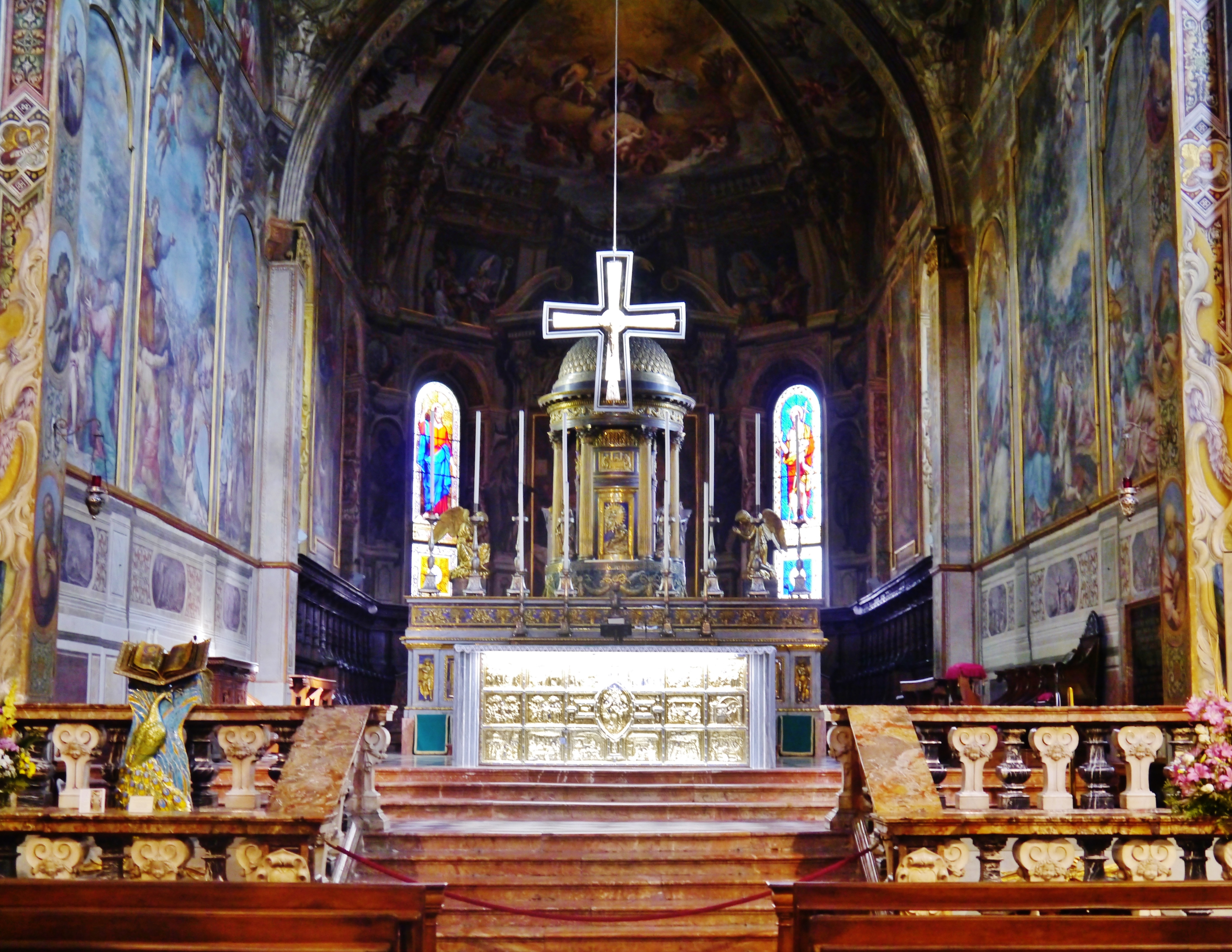 Choir & High Altar of the Church of St. John the Baptist, Monza, Province of Monza & Brianza, Region of Lombardy, Italy